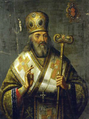 Dionisiy (Balaban), metropolitan of Kiev (1657-1663)